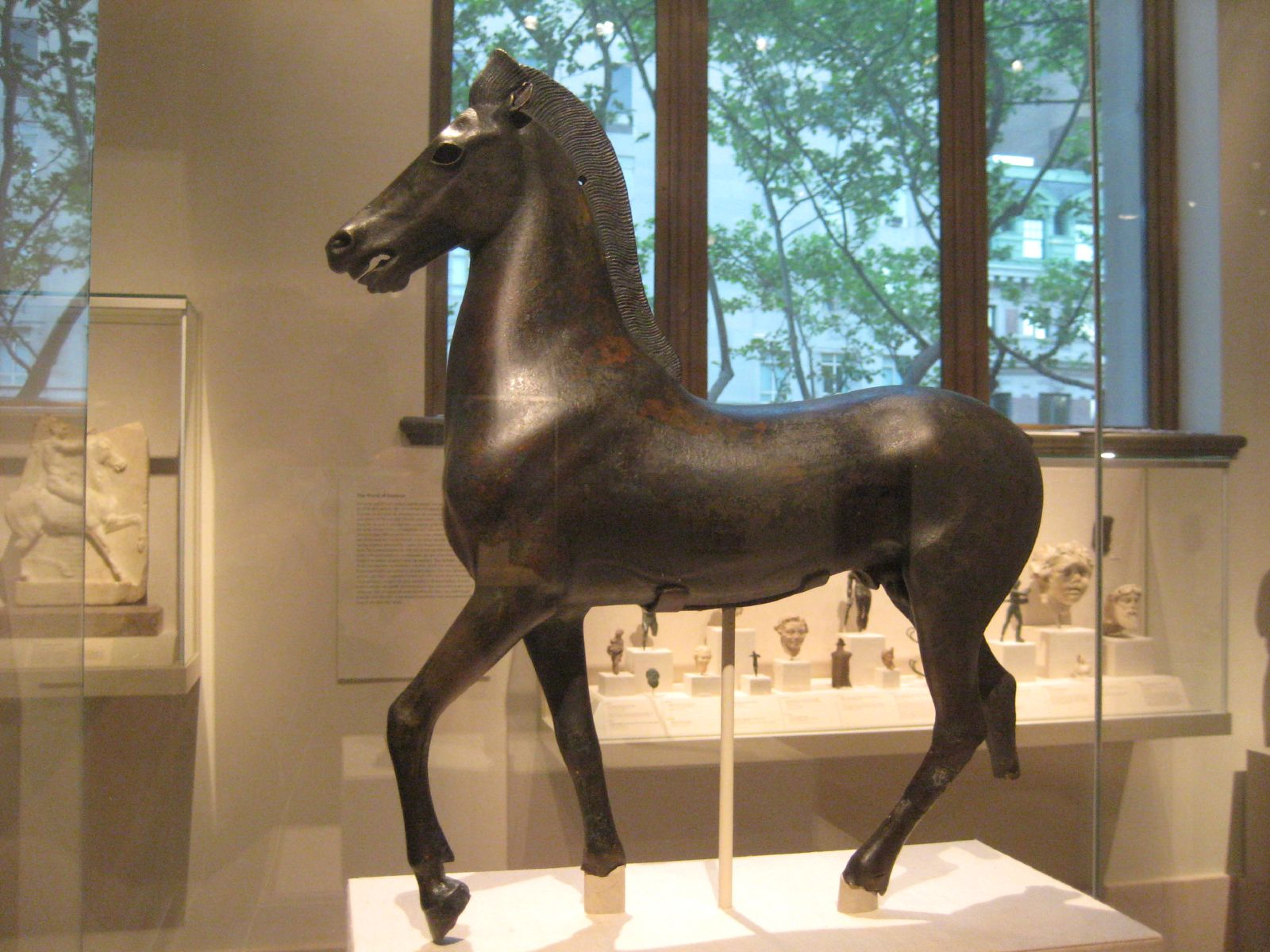 Bronze Greek Statuette of a Horse, direct low-wax casting, late 2nd - 1st century B.C. Metropolitan Museum of Art, New York.